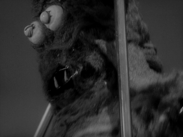 Screenshot from the film Creature from the Haunted Sea